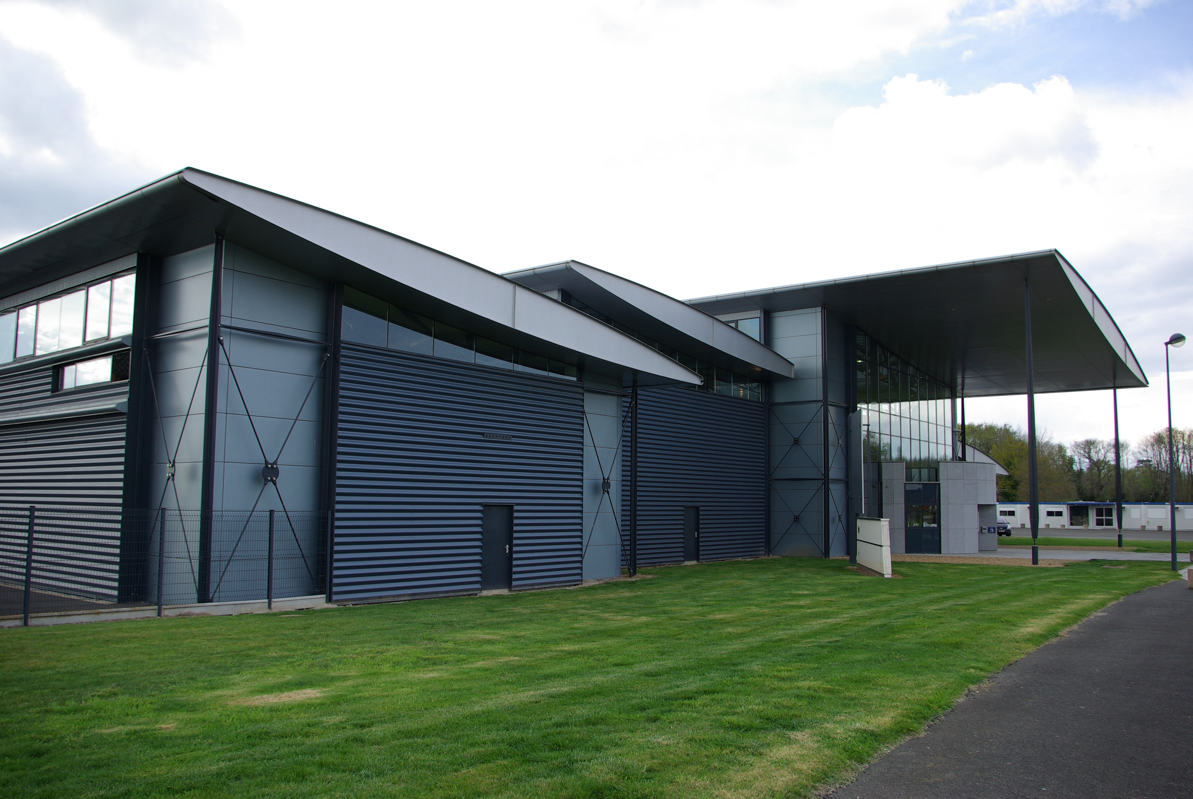 The musée régional de l'air of Angers-Marcé is in form of aircraft.